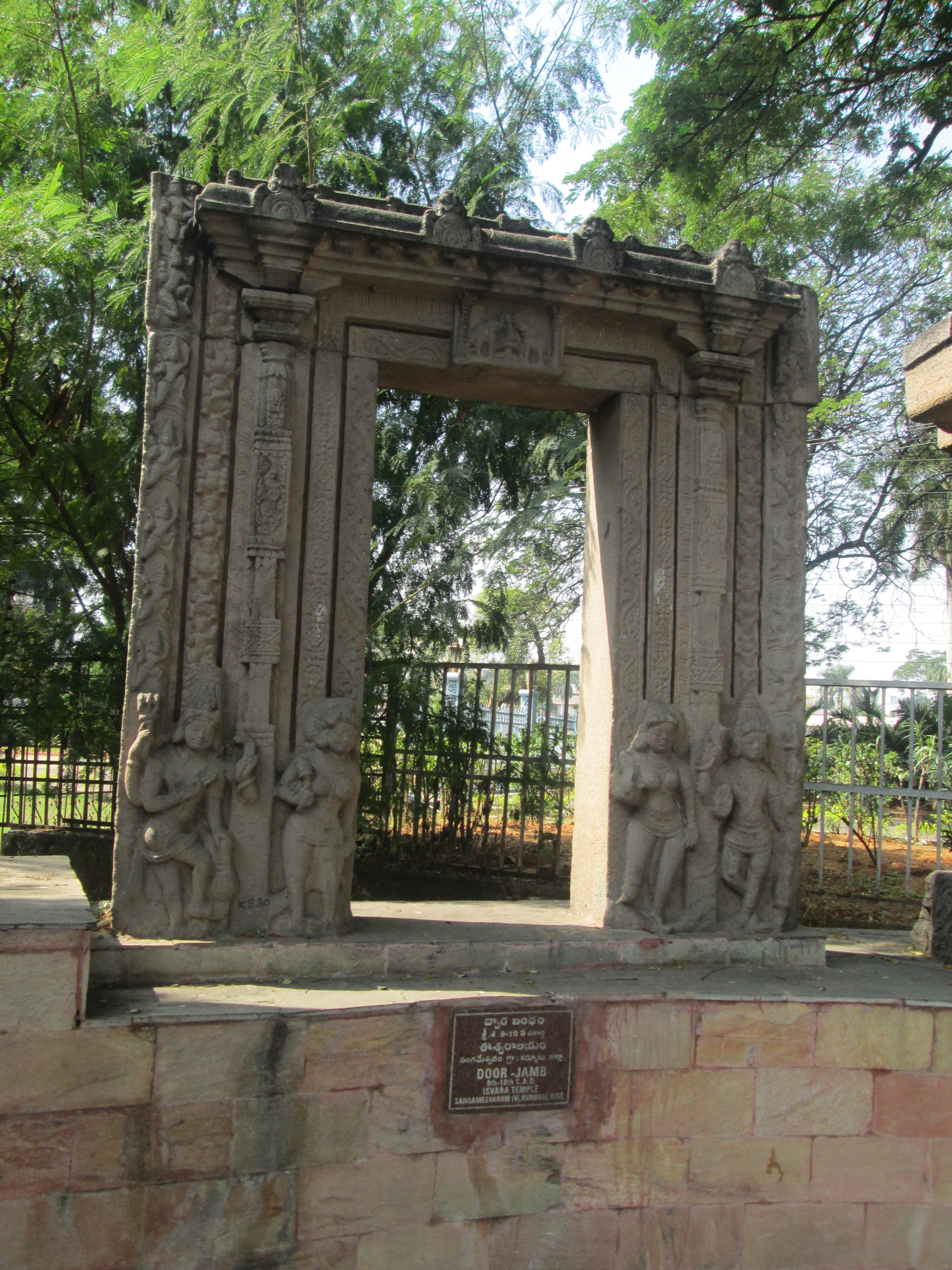 YSR State arch museum - yamuna devi, kondimalla, mahaboobnagar dist.